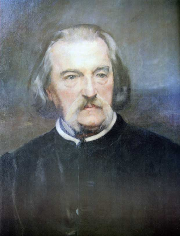 Portait by Jean Gigoux